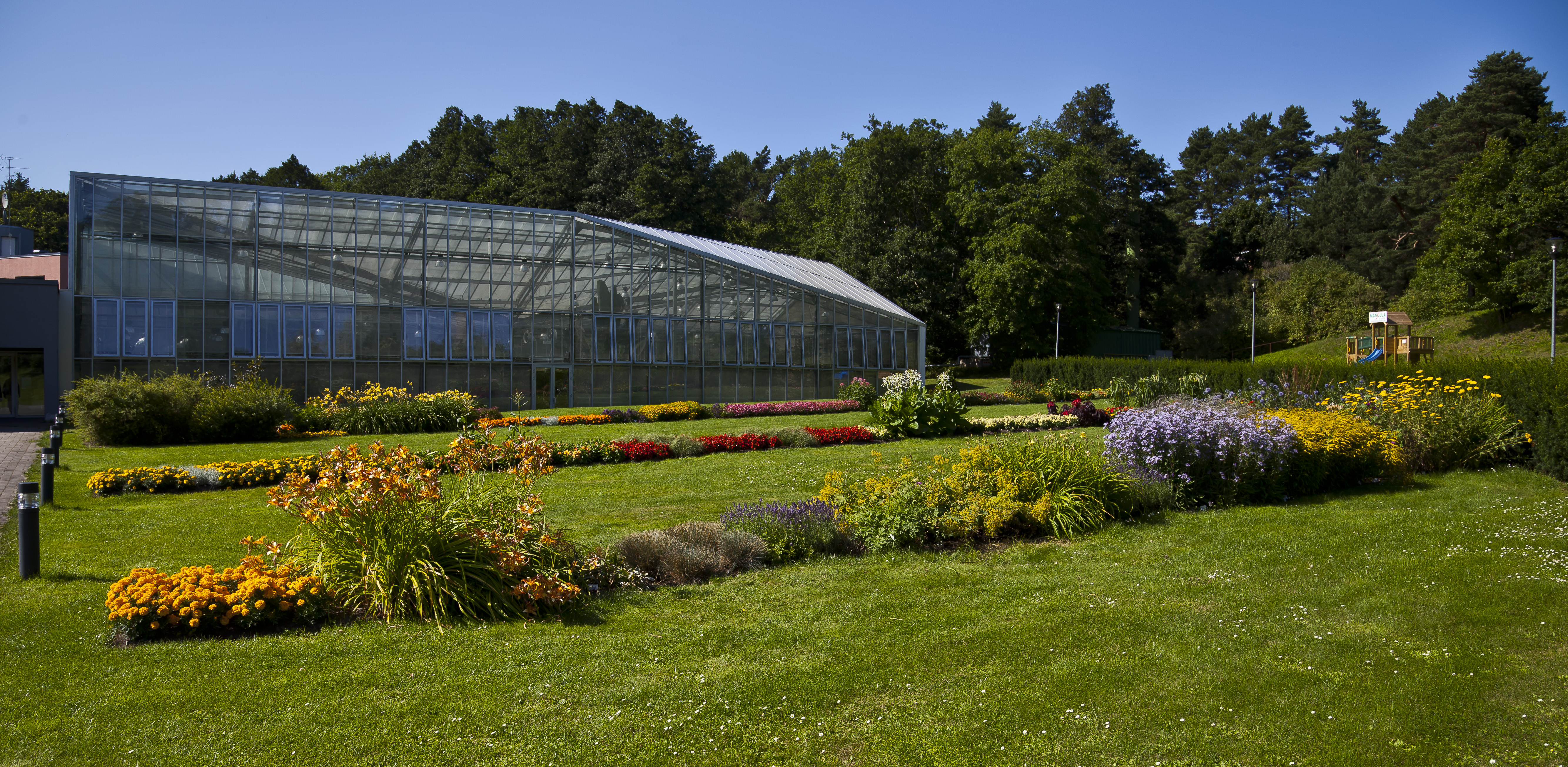 Tallinn Botanic Garden, Estonia